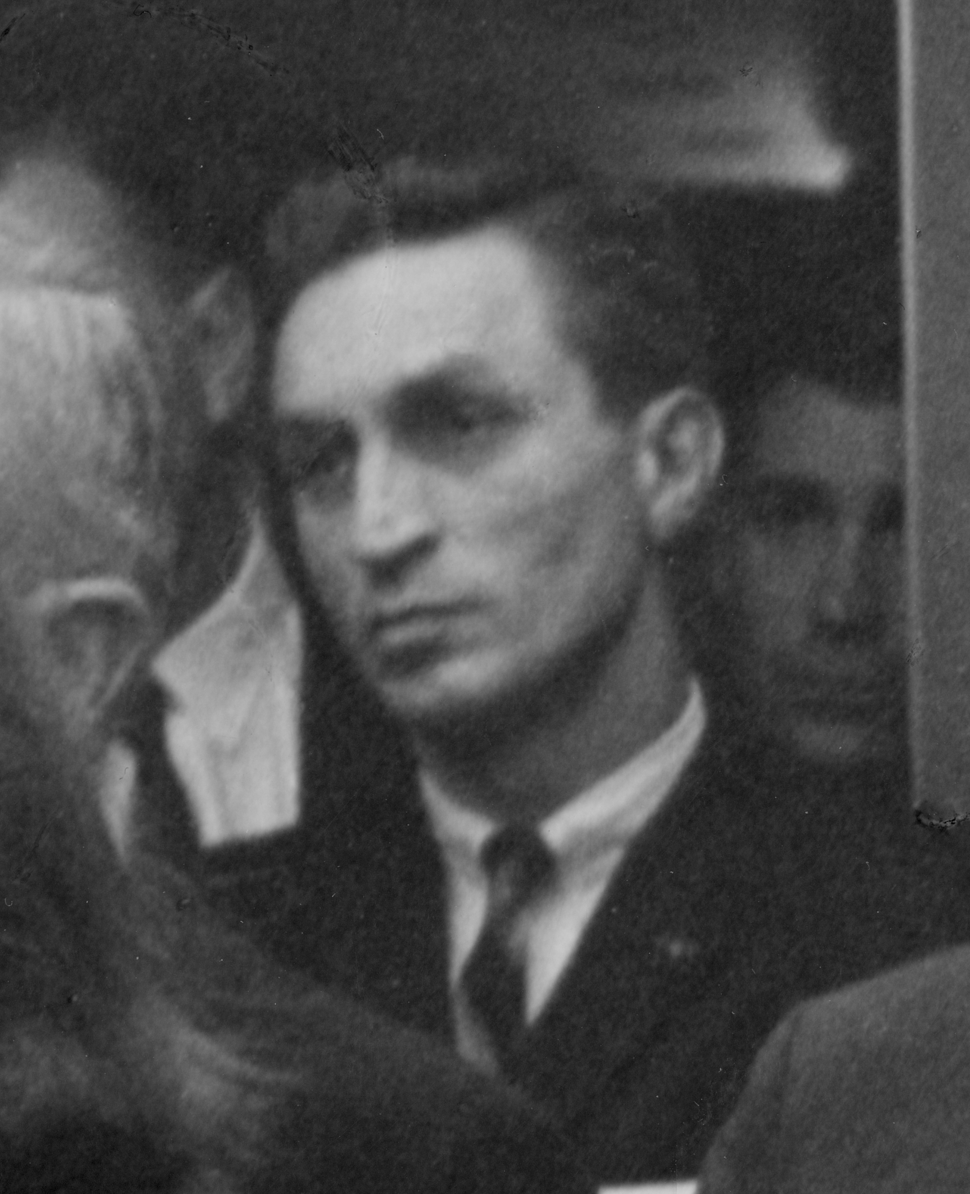 Lem Johns, cropped.